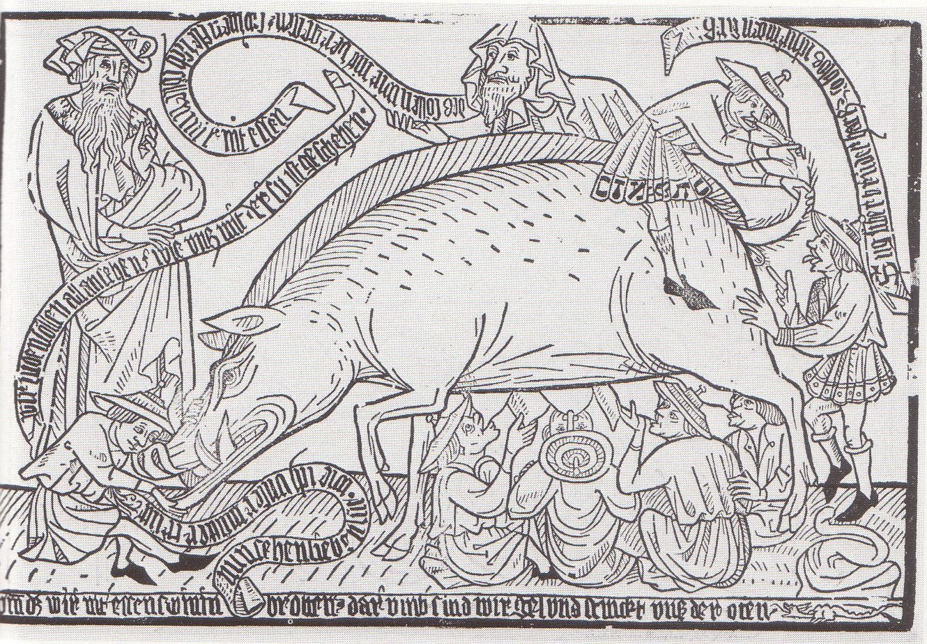 German woodcut from the 15th century showing anti-judaistic "Judensau" ("Jew sow"/"Jew pig")